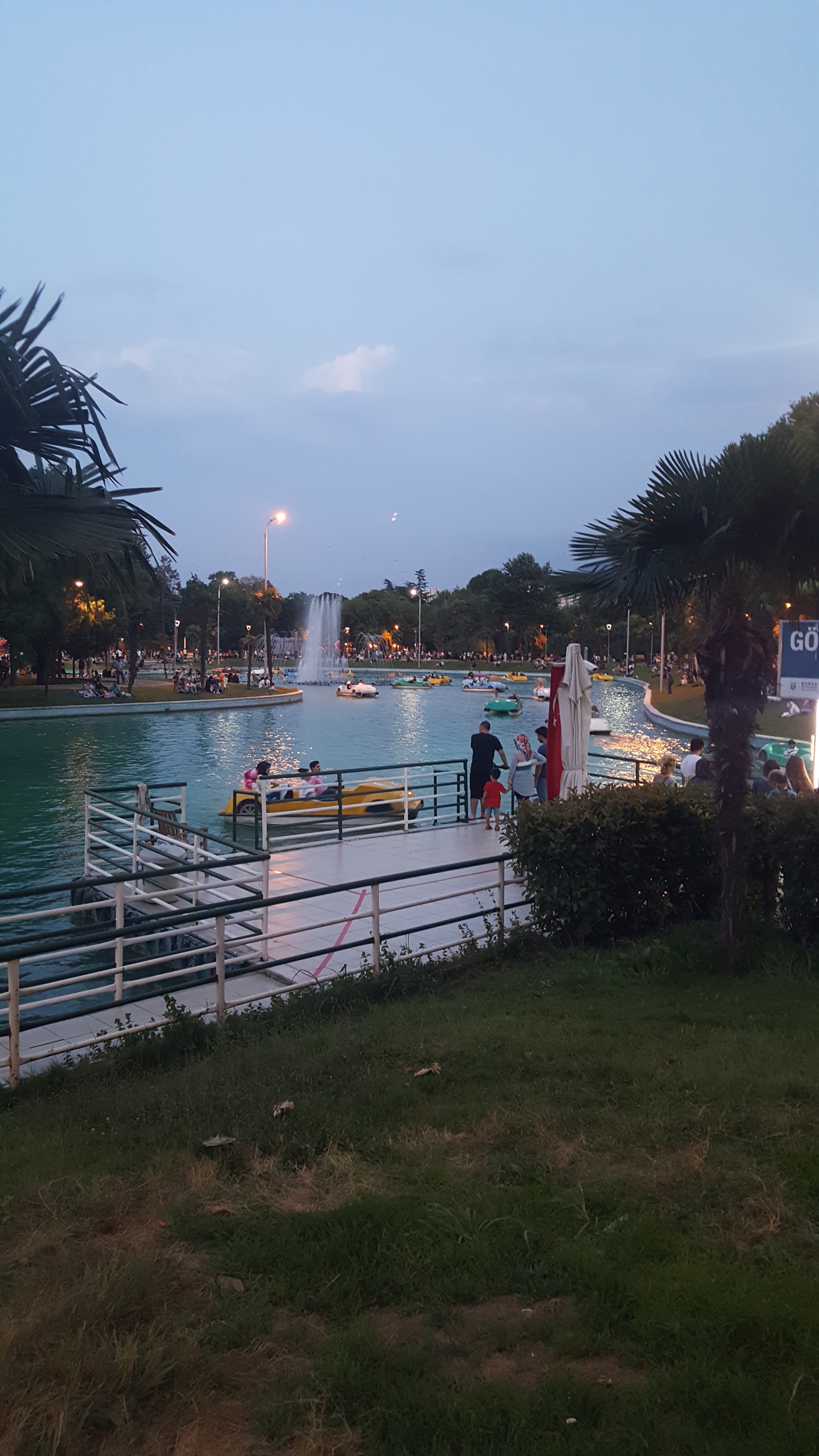 Kültür Park, Bursa, Turkey, 2017